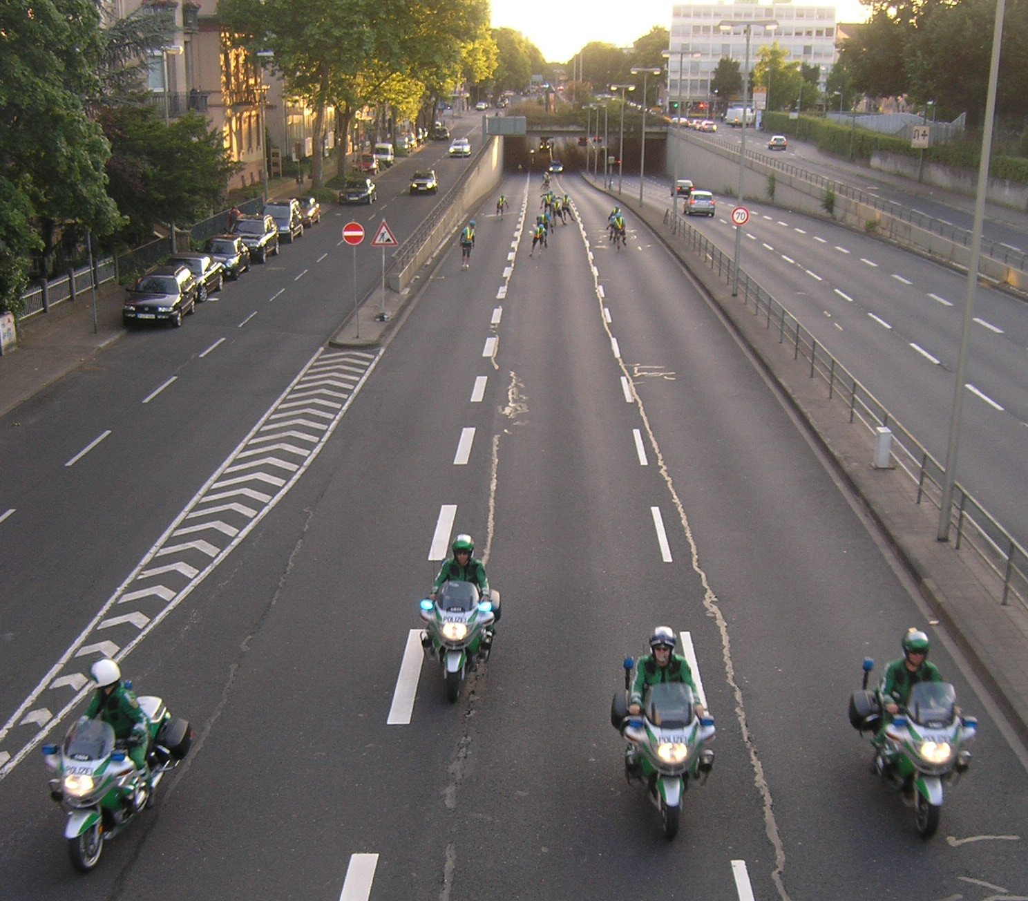 A street skating event in Karlsruhe. A few policemen on motorcycles are the forefront, the stop traffic on crossing roads and joining lanes. Then a troop of volunteer guards take over their position and keep the crossings blocked until the convoy has passed.